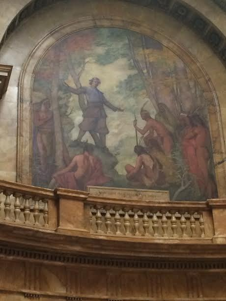 Puritan Minister John Eliot is depicted on the rotunda of the Massachusetts State House leading Praying Indians in prayer.